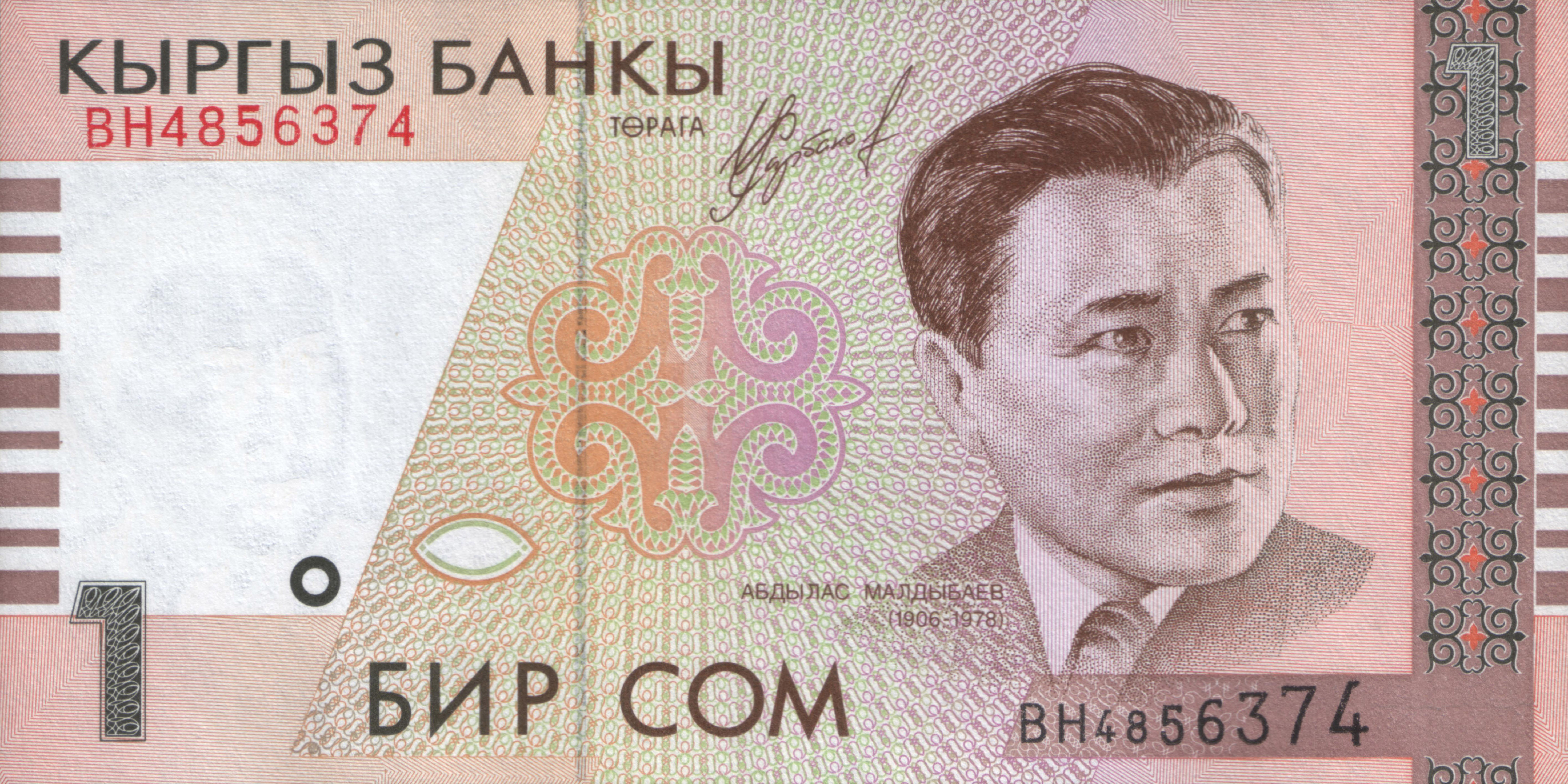 1 som of Kyrgyzstan (1999)